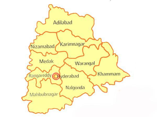 Map of Telangana at the time of formation on June 02 2014